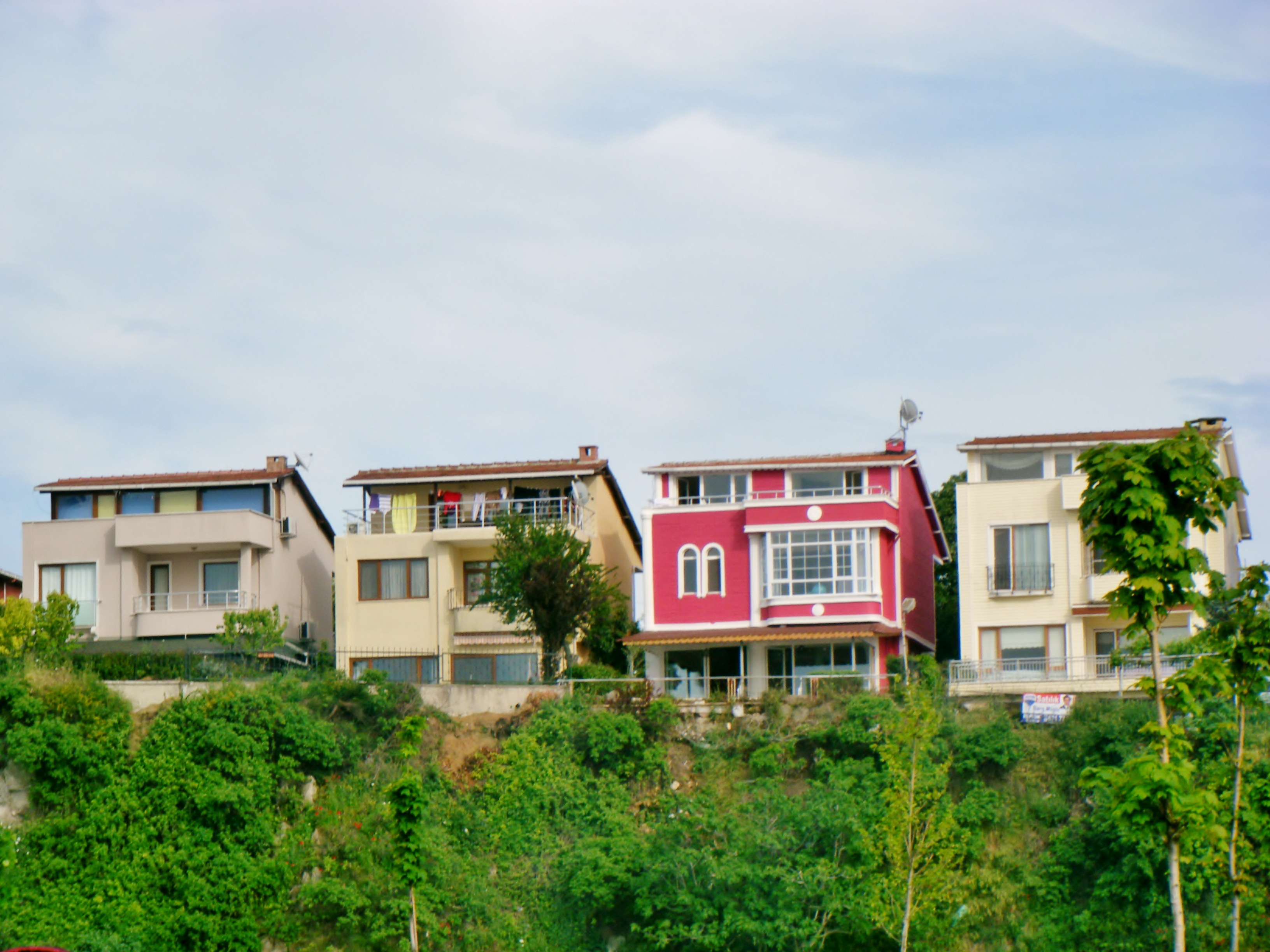 beylikdüzü district of istanbul. waterfront area.